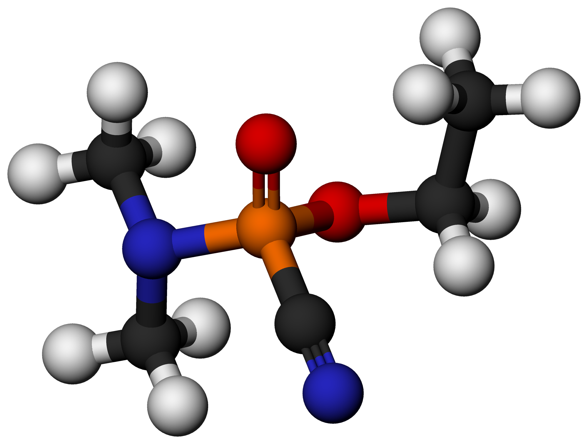 GA 3D balls